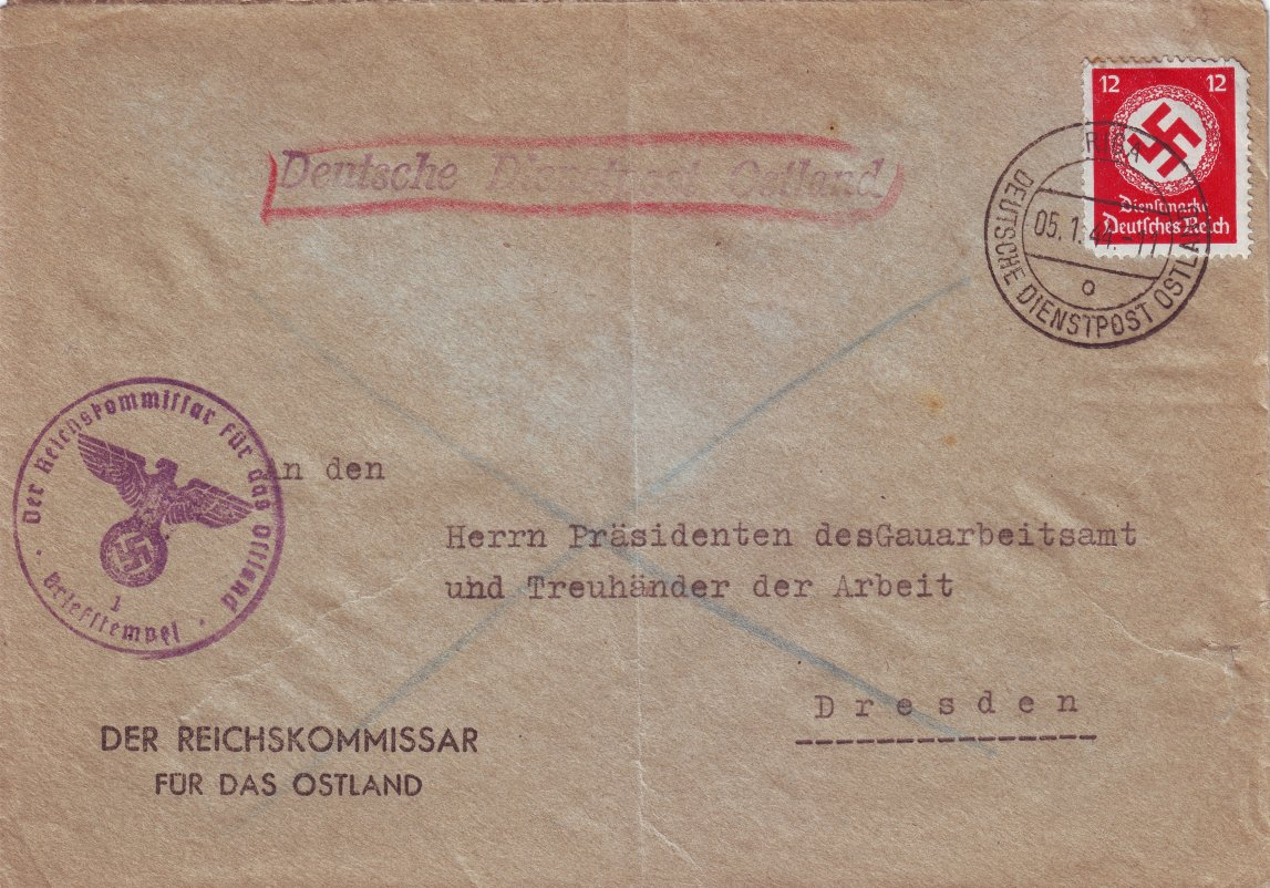 Letter from the Reichskommssar für das Ostland, sent by Deutsche Dienstpost Ostland from Riga to Dresden, 5 January 1944. With an official mail postage stamp.